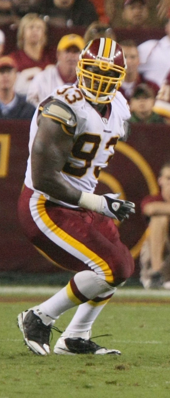 Phillip Daniels playing in a Washington Redskins preseason game against the New England Patriots on August 28, 2009